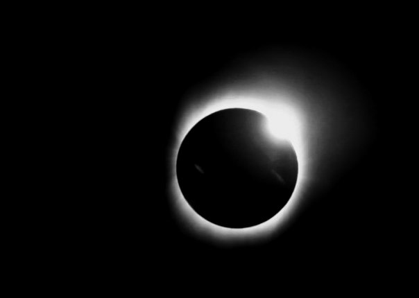 Diamond ring during the total solar eclipse of 22 July 2009. Taken from Kurigram district of Bangladesh by Lutfar Rahman Nirjhar.